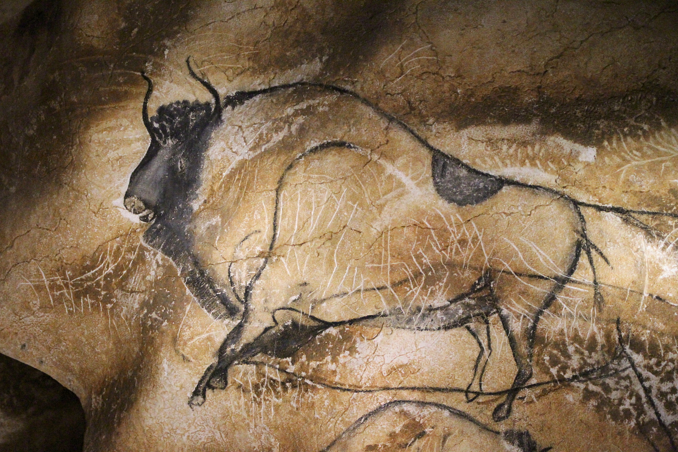 Big bison. Wooden charcoal drawing with fading, flint cropping with fading.